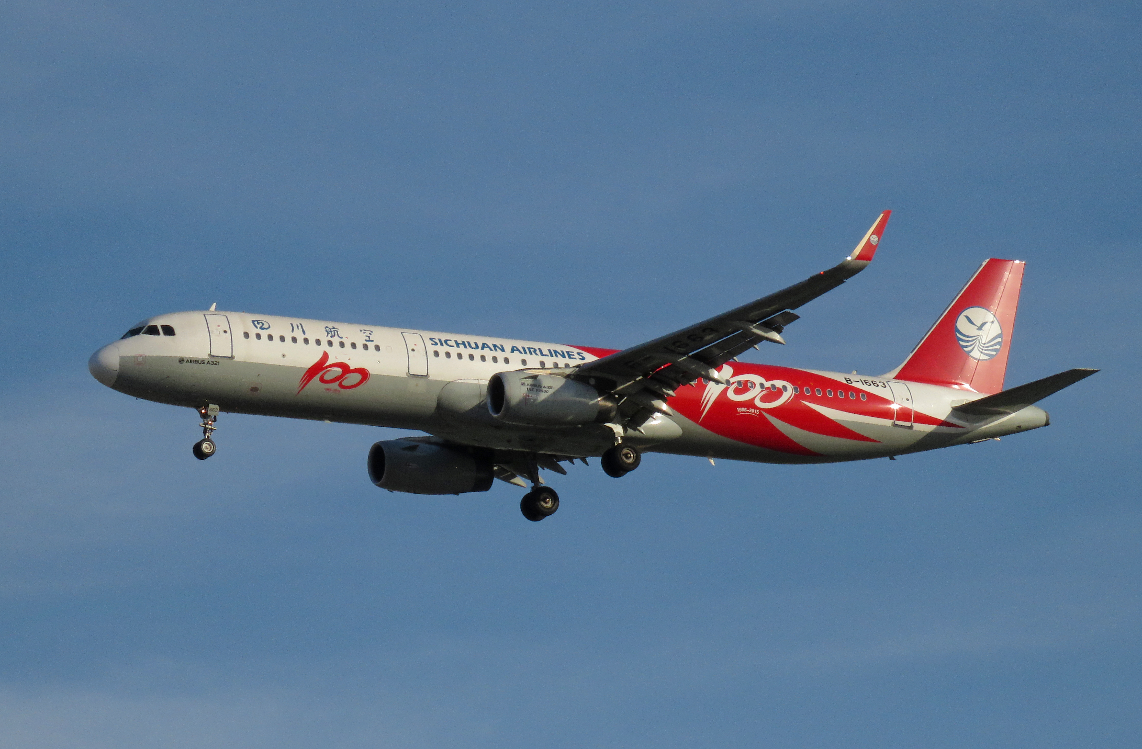 Sichuan 8831 from Chongqing. It's the 100th aircraft for Sichuan Airlines.